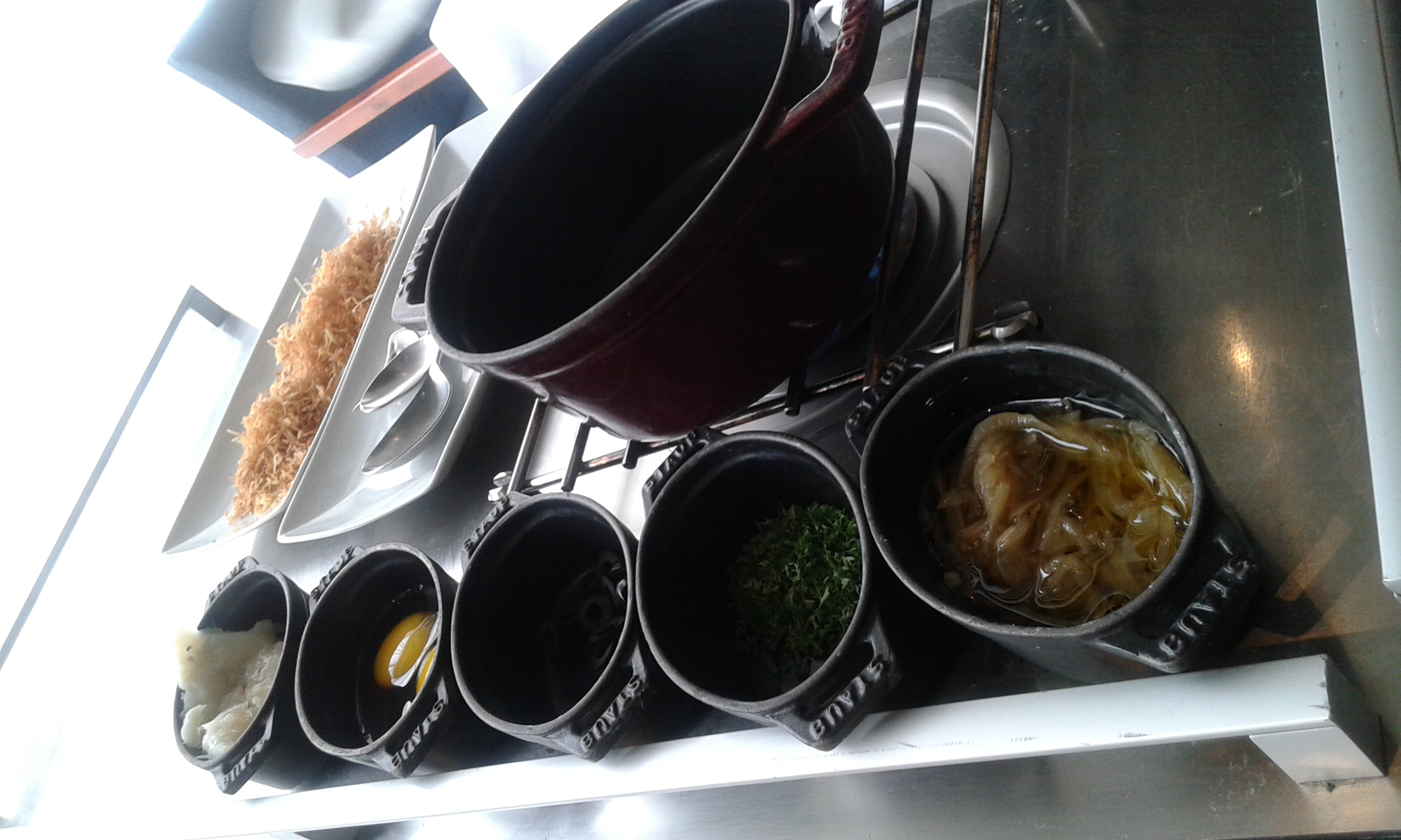 Bacalhau à Brás (Cod à Brás) is made from shreds of salted cod (bacalhau), onions and thinly chopped (matchstick-sized) fried potatoes, all bound with scrambled eggs. It is usually garnished with black olives and sprinkled with fresh parsley. The origin of the recipe is uncertain, but it is said to have originated in Bairro Alto, an old quarter of Lisbon. The name "Brás" (or sometimes Braz, Blaise in English) is supposedly the name of its creator. This photo has been taken in the country: China